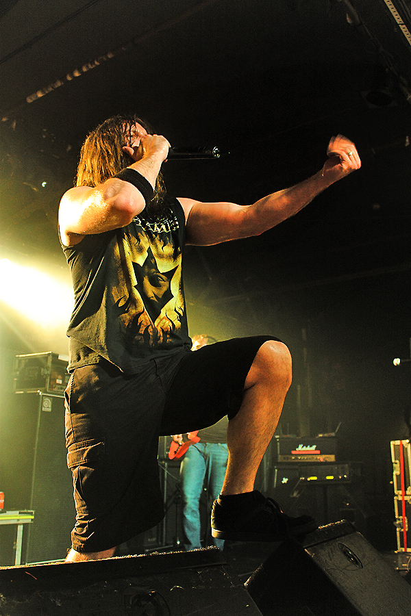 Unearth @ Razz2, Barcelona, Spain.